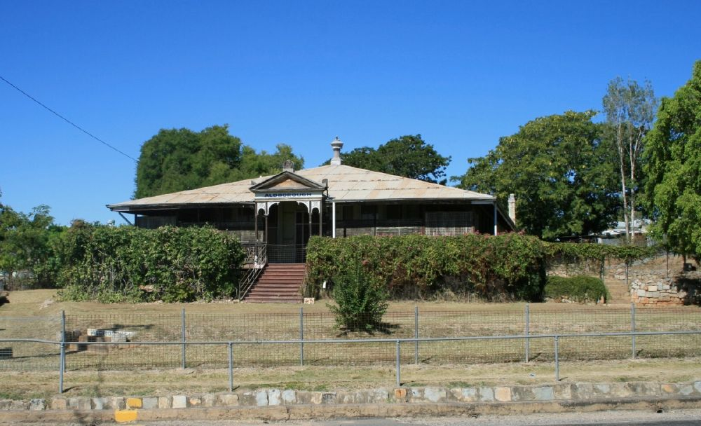 Aldborough NW elevation from Deane Street (2006)